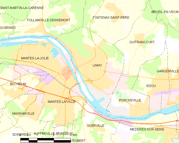 Map of French municipality Limay